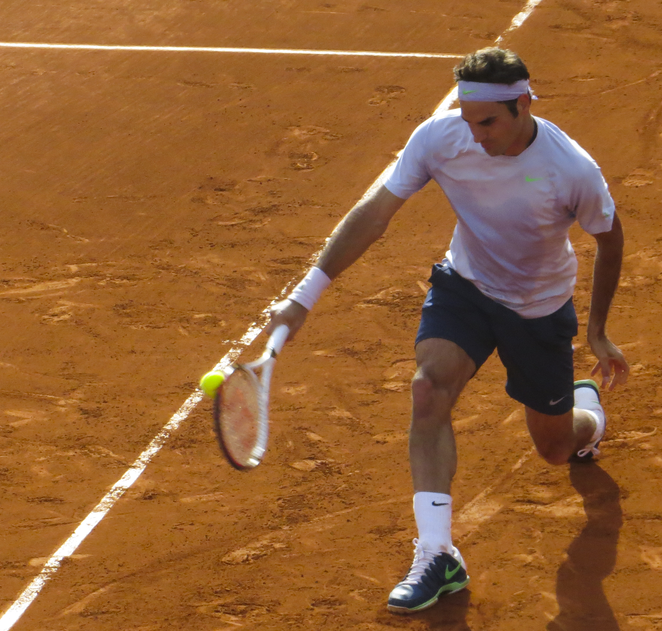 Fed actually sweats